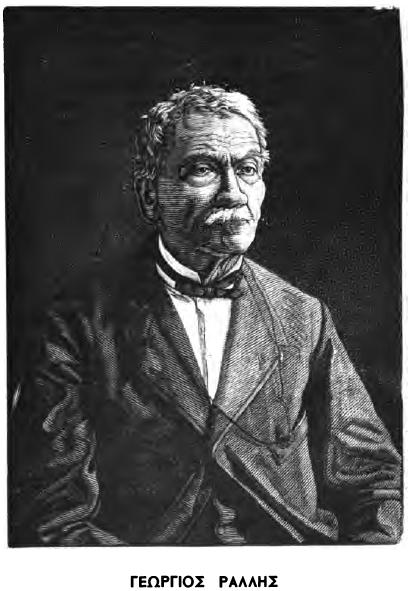 Georgios Rallis tou Alexandrou (1804 - 1883) Poikilē stoa: ethnikē eikonographēnenē epetēris ... Etos 1-16, 1881-1914 (1882) Author: Ioannes A. Arsenēs , Michael A . Raphaelobits Volume: 3-4 Publisher: Estia Year: 1882 Possible copyright status: NOT_IN_COPYRIGHT Language: Greek Digitizing sponsor: Google Book from the collections of: Harvard University Collection: americana